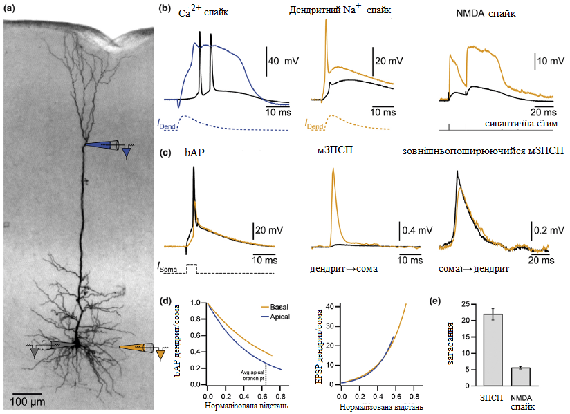 Phenomenology of dendritic spikes. Adapted and modified from "Synaptic clustering by dendritic signalling mechanisms" by Matthew E Larkum and Thomas Nevian